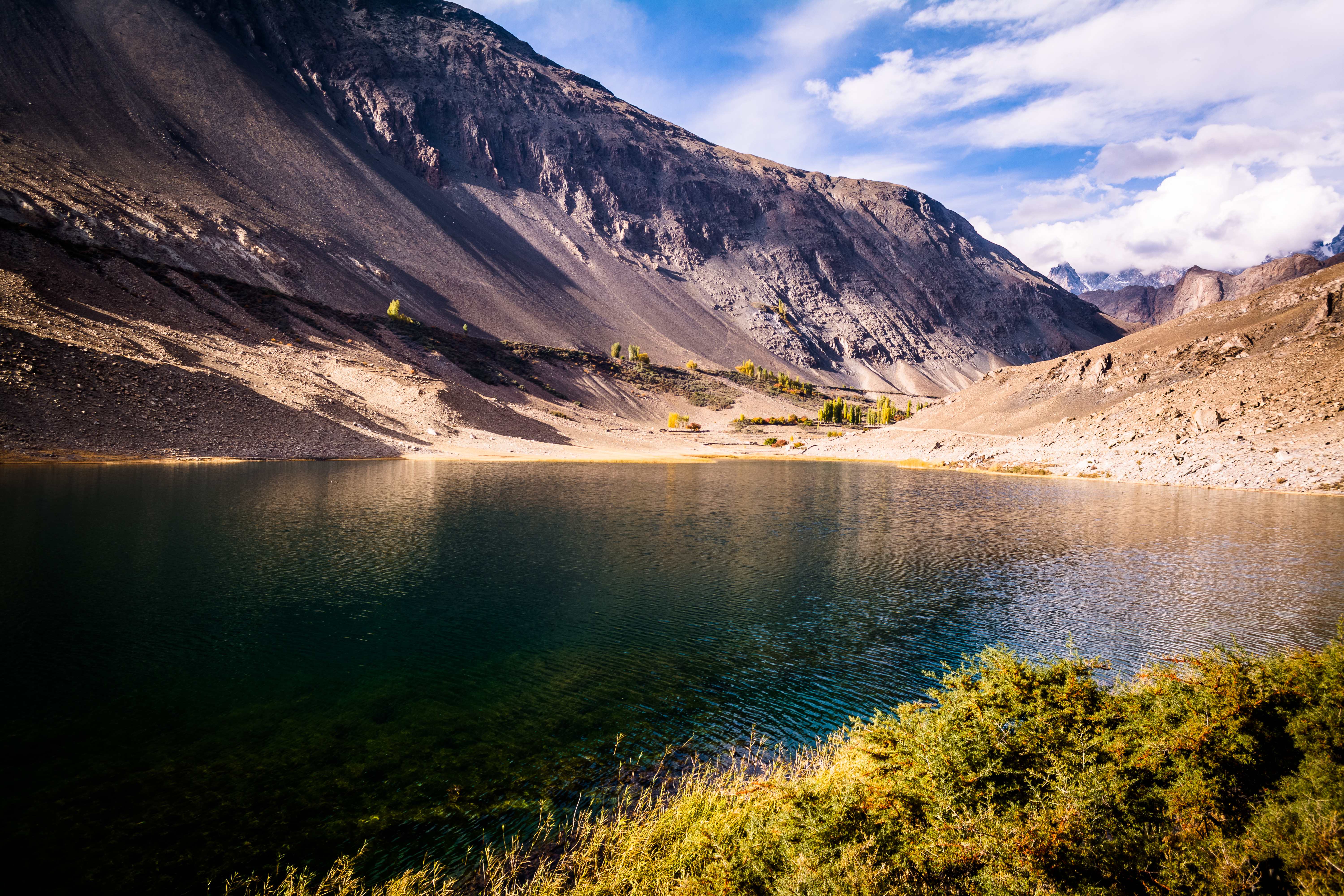 2nd Largest Salt-Water Lake in the World